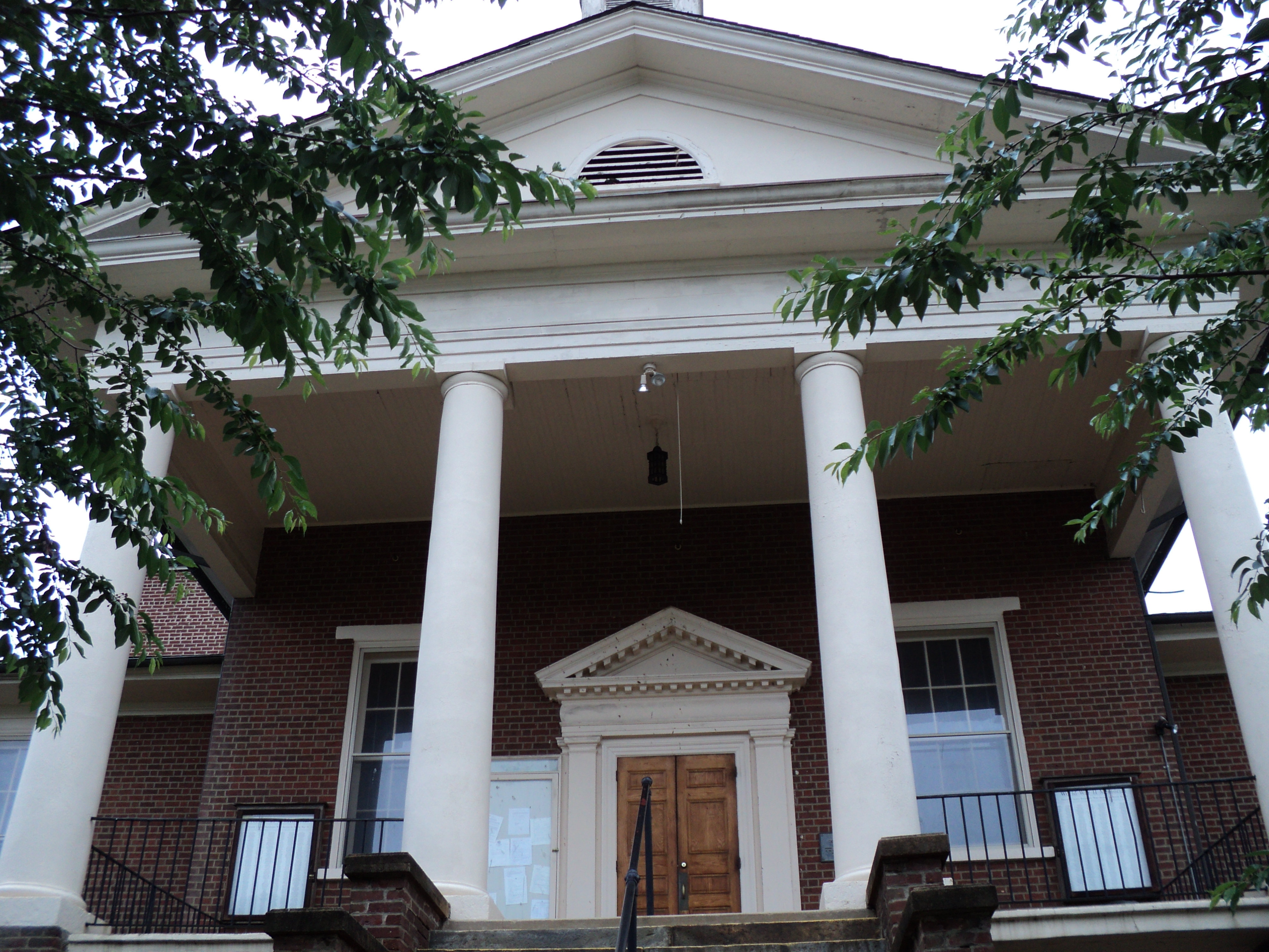 Exterior the Patrick County Courthouse, located in the town of Stuart, Patrick County, Virginia.